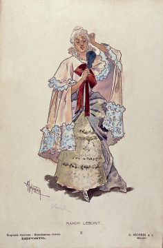 Description: Manon's costume for Act II of Manon Lescaut for the world premiere performance, Teatro Regio di Torino, 1 February 1893. Artist: Adolf Hohenstein (1854-1928) Provenance: Museo Teatrale alla Scala.